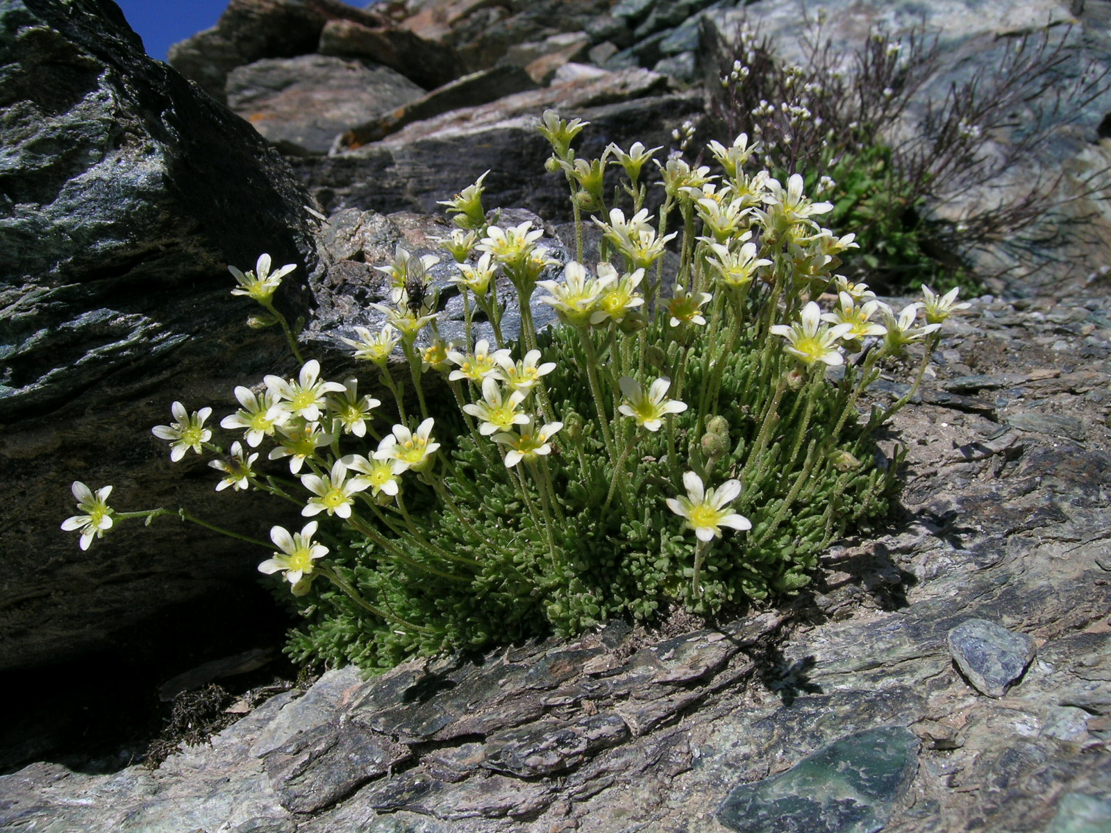 Saxifraga bryoides Zermatt, beneath Gornergrat (Kanton Wallis, Switzerland), 2800 m Author: Roland Teuscher – own photograph Date: 2.08.06